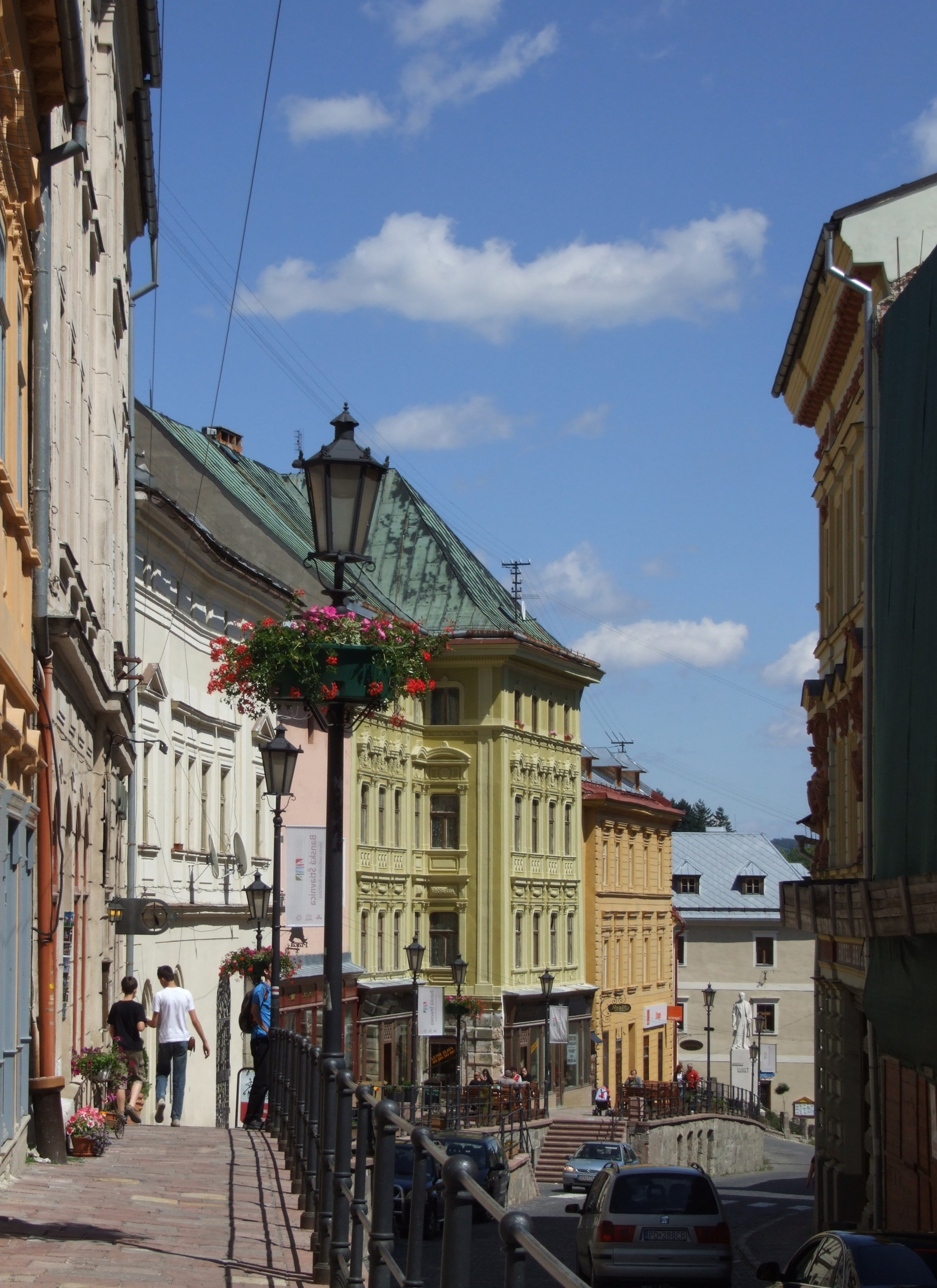 Banská Štiavnica (Selmecbánya, Schemniz). Andrej Kmeť street (ulica Andreja Kmeťa) - main street in city